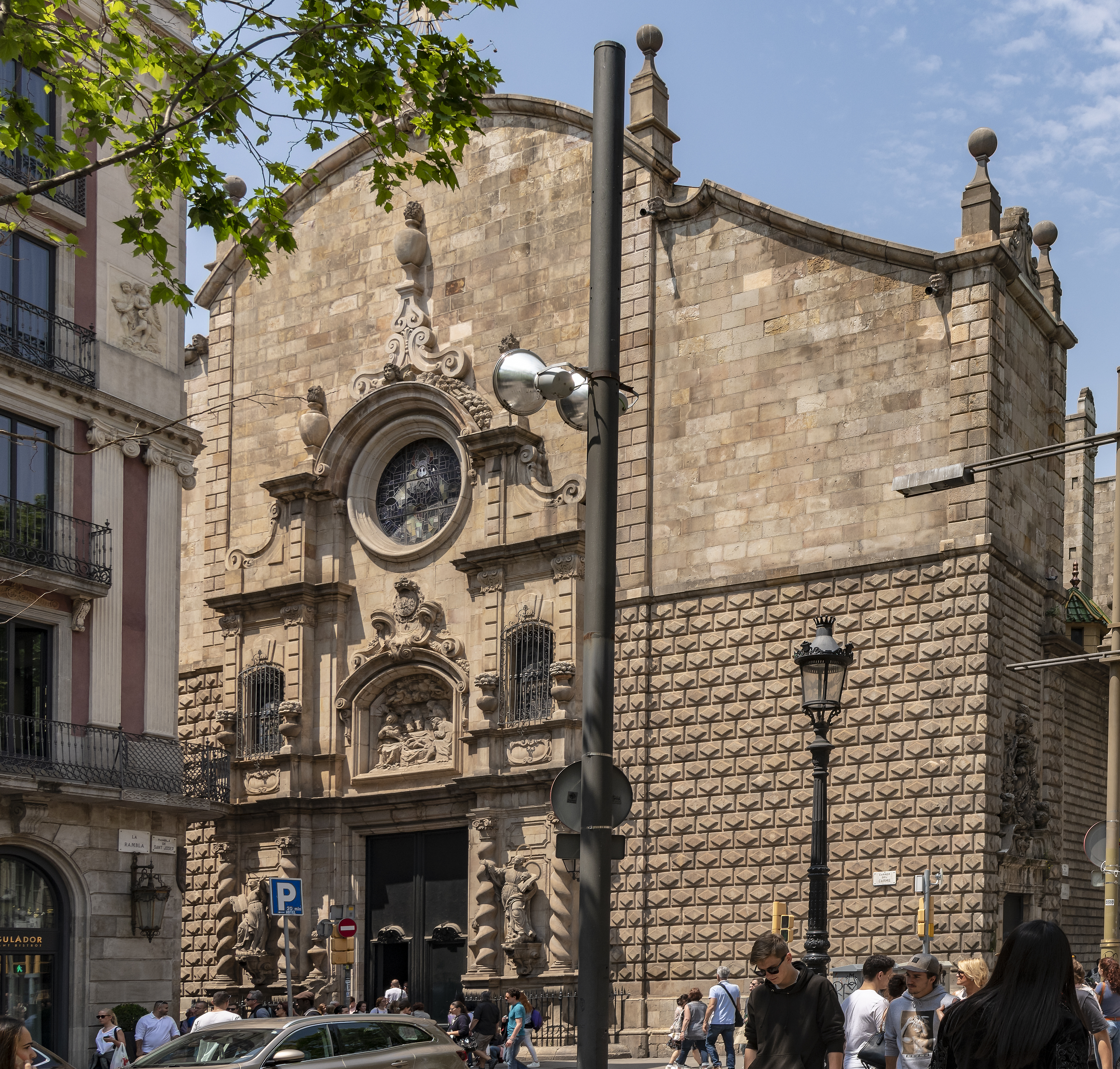 Betlem church, on Les rambles in Barcelona.